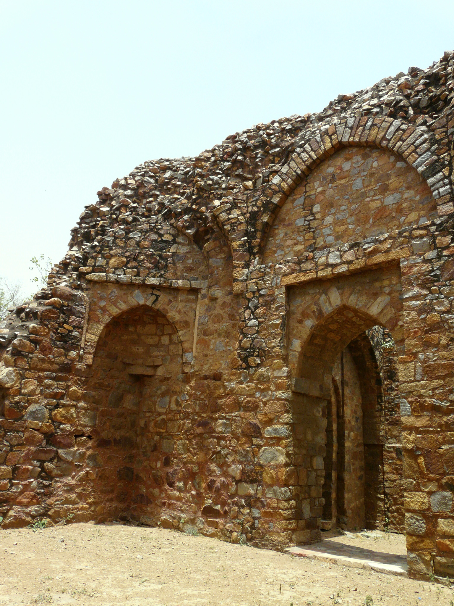 Balban's tomb, Mehrauli. First true arch in India, part of Indo-islamic architecture.